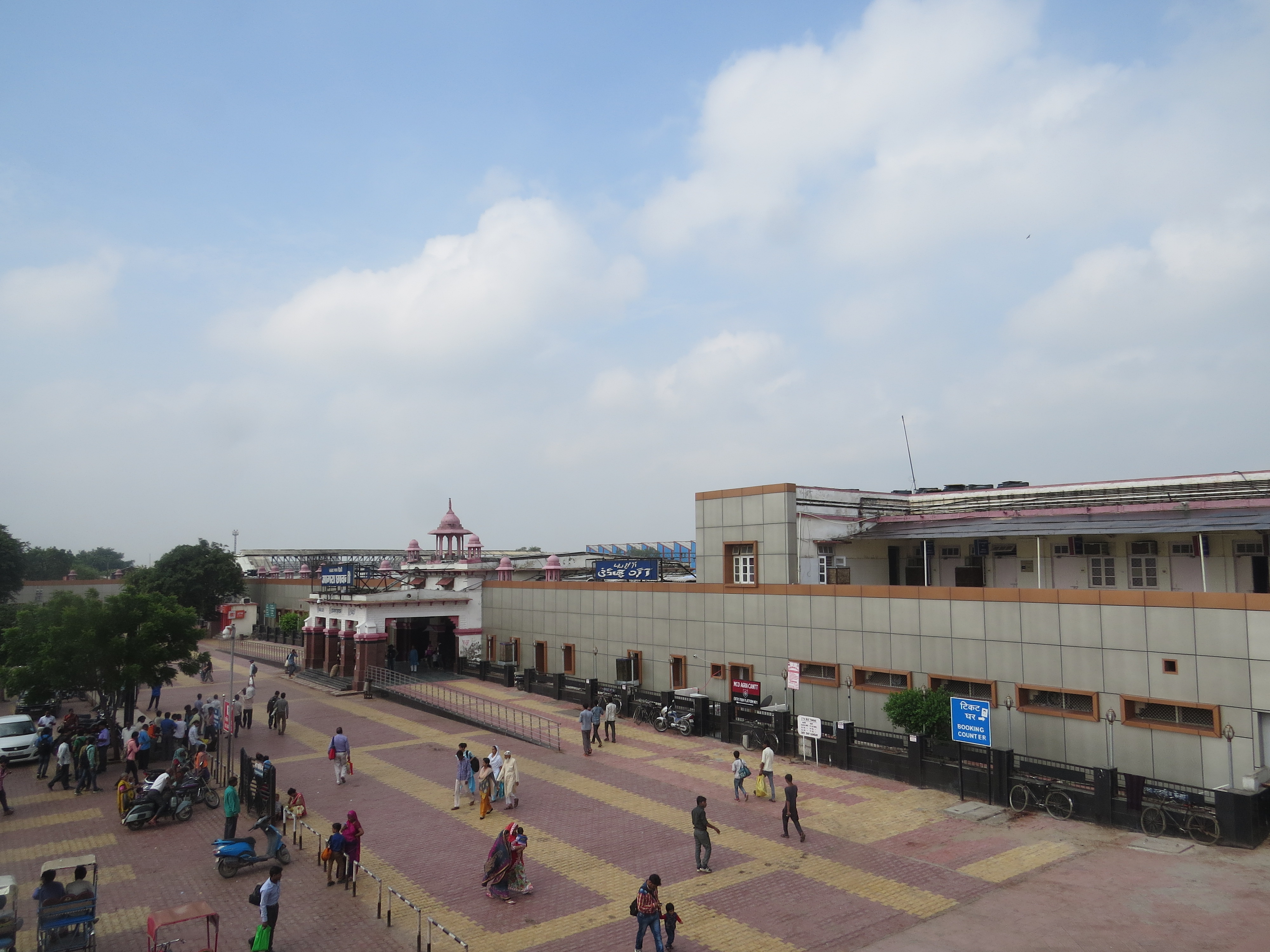 Delhi photos taken during the WCI 2016